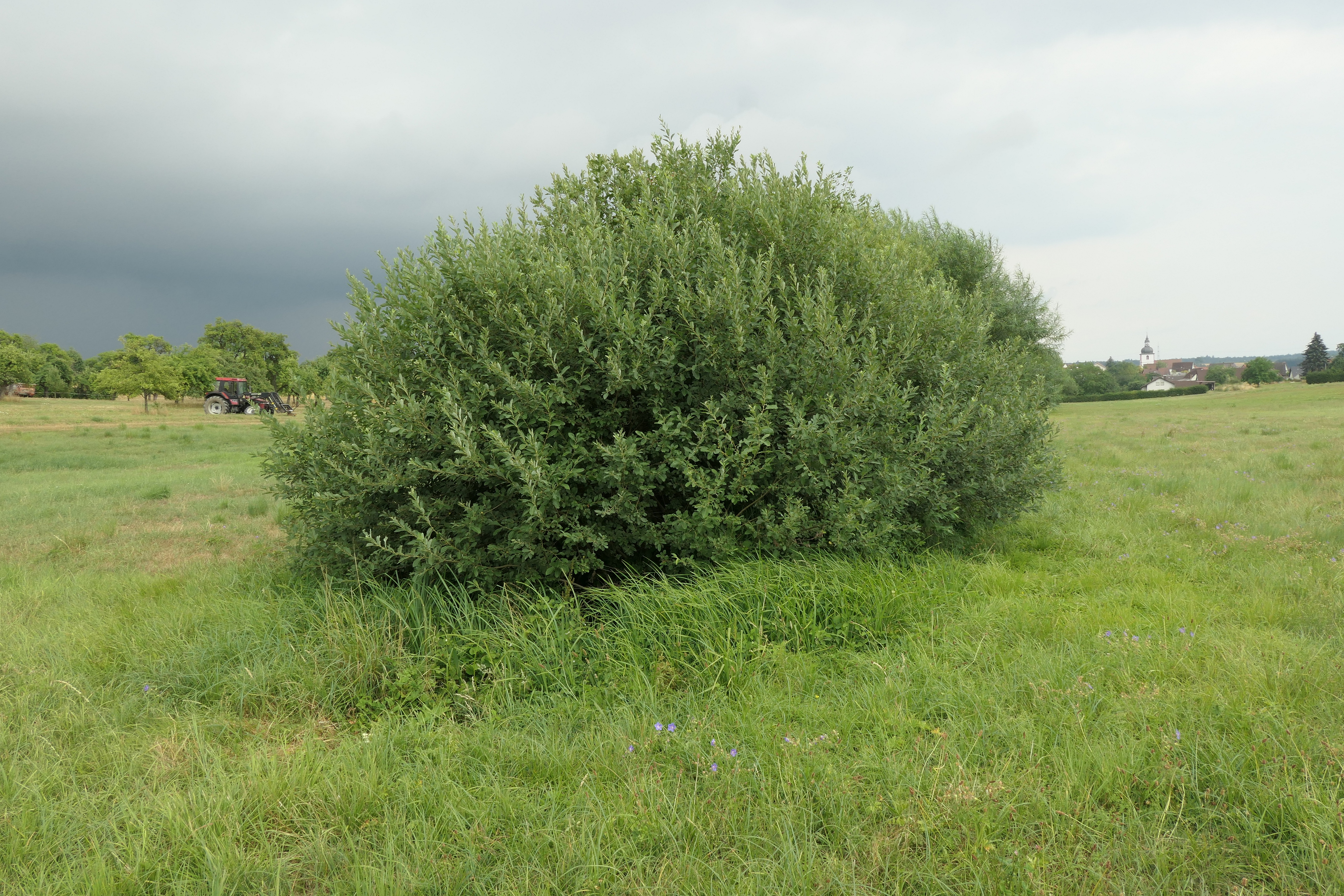 Spring of the river Schefflenz, near Seckach-Großeicholzheim, Germany